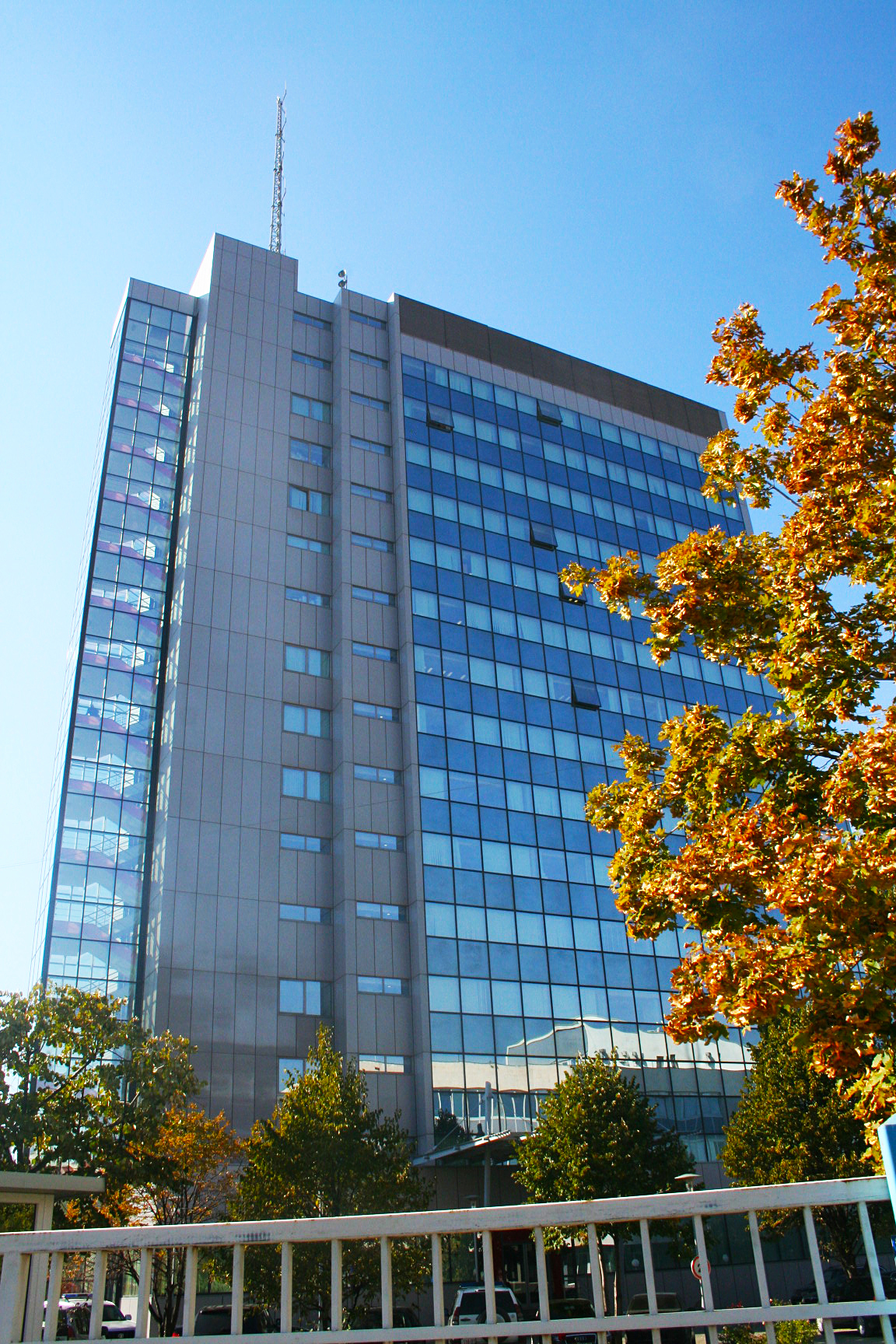 Kosovo Government building during autumn. (Photo Made in Prishtina).